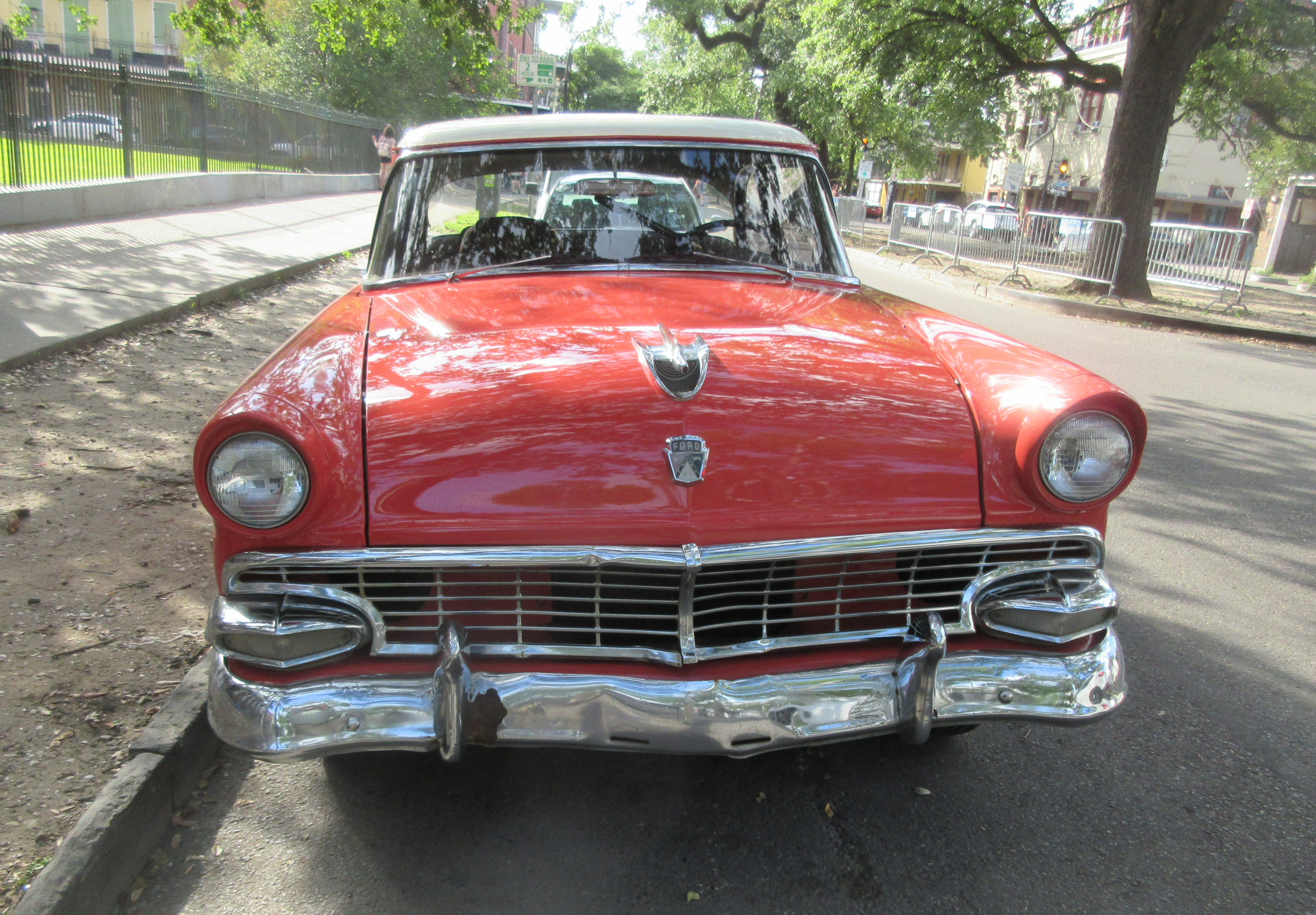 1956 Ford on Esplanade Avenue, French Quarter, New Orleans.